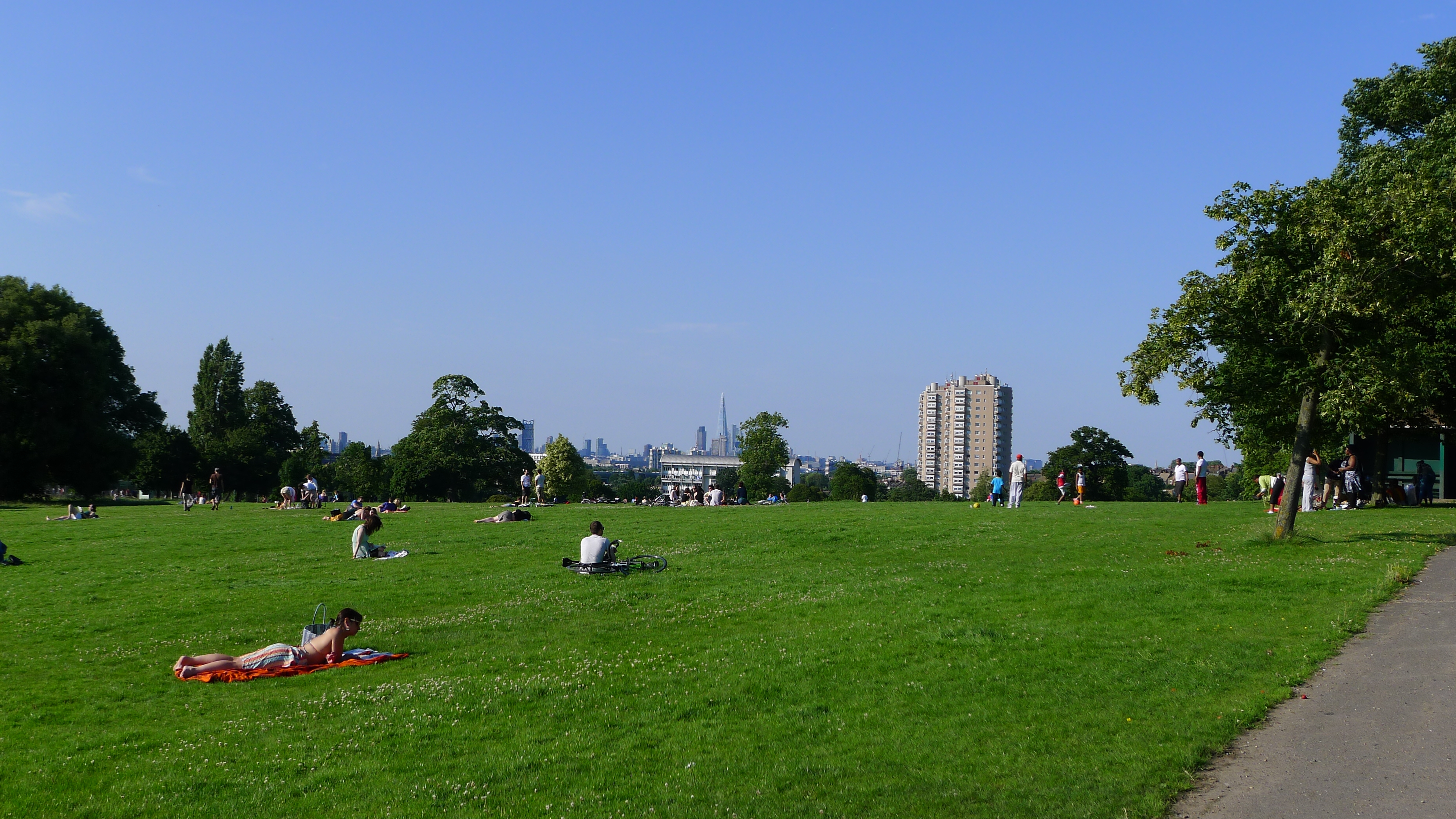 A view in Brockwell Park, with Herne Hill's two residential tower blocks visible and the London Shard further in the background.